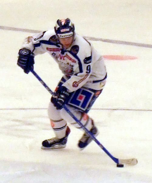 Ice hockey player Tony Mårtensson of Linköpings HC starts a penalty shot in E.ON Arena, Timrå, Sweden during the Swedish Elite League game Timrå IK-Linköpings HC (0-2).